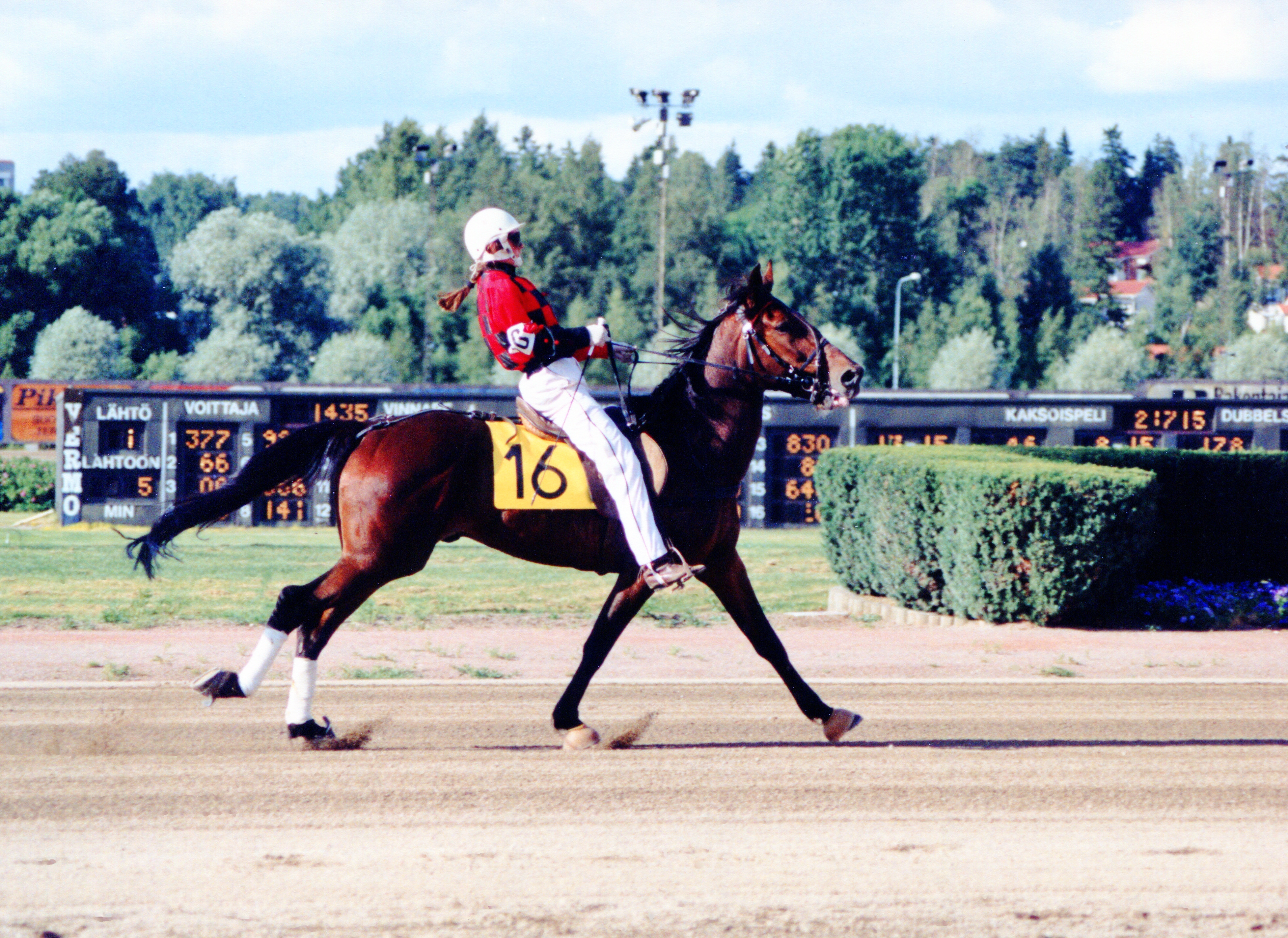 Montè in Vermo. Like in harness racing, gallop is strictly forbidden. The rider is expected to do their best to slow the horse down until it trots again.